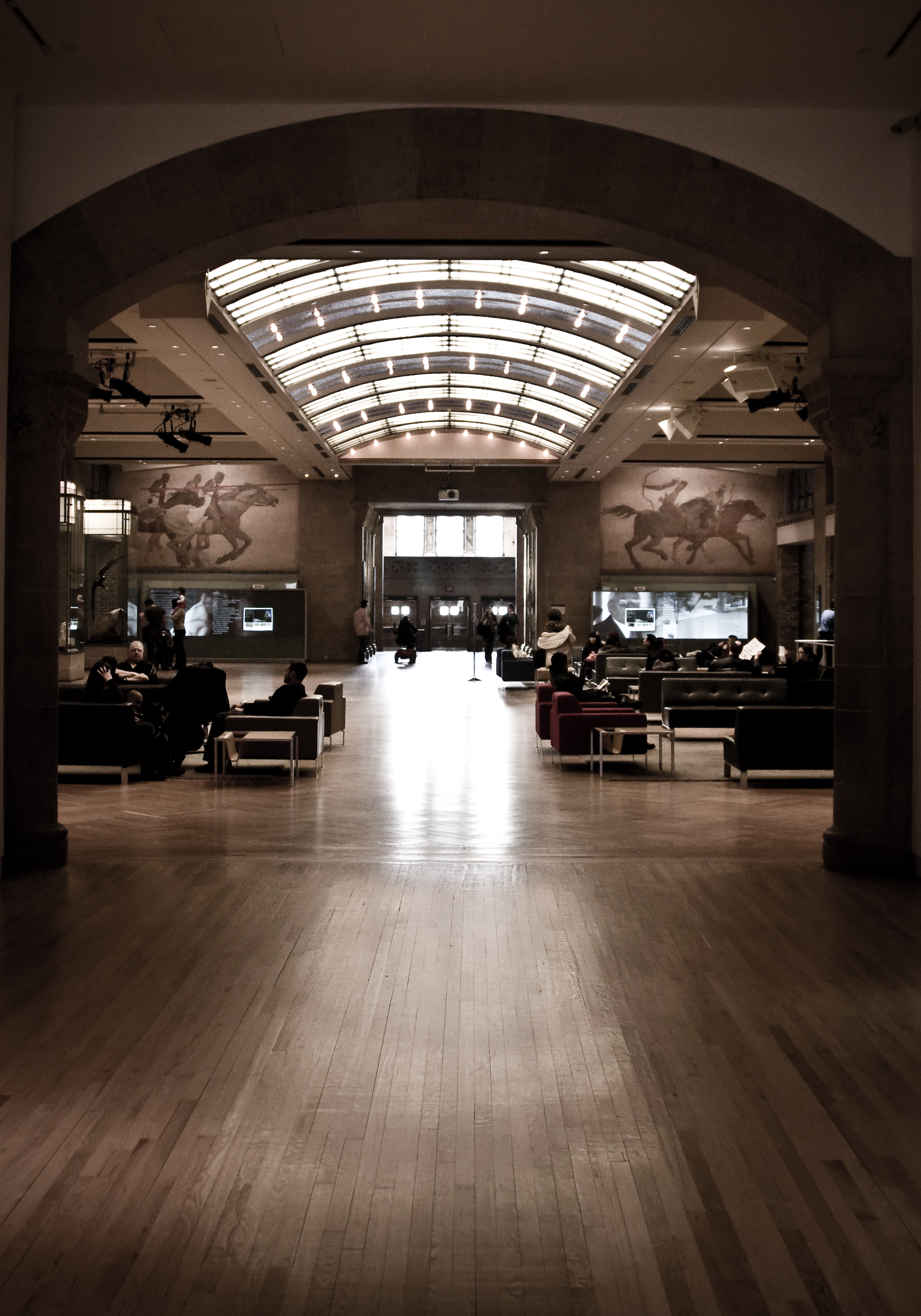 Atrium of the Michael Lee Chin Crystal extension of the Royal Ontario Museum. The doorway at the far end was the previous entrance of the ROM.